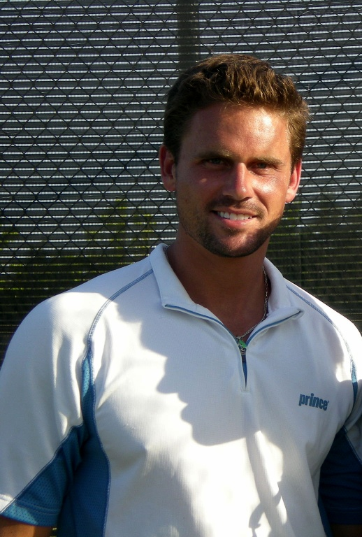 Jan-Michael Gambill poses at a fundraiser for the Davis Tennis Court Fund in Davis, California (95616).